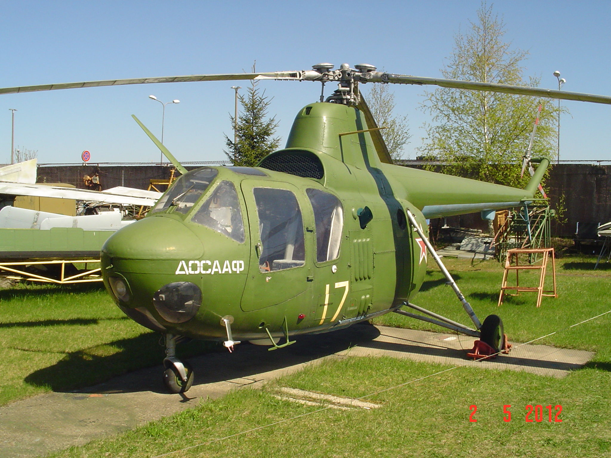 MI-1 museum in Riga